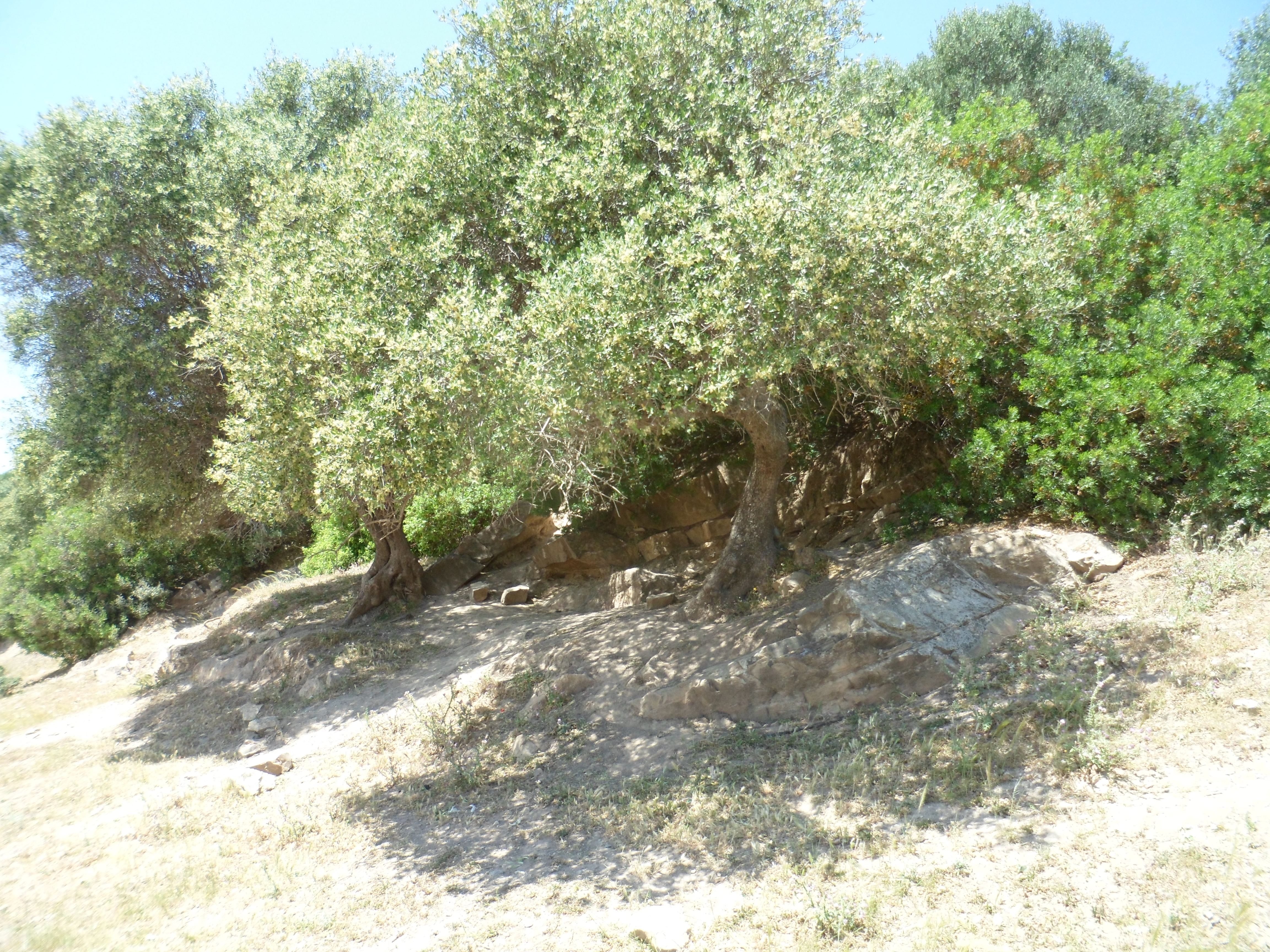 ichkeul national park tunisia